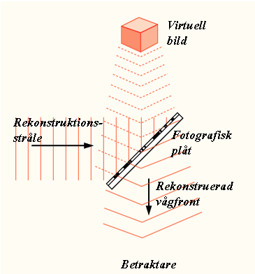 Swedish language version of Image:Holography-reconstruct-notext.png, made by DrBob. Modified by Xauxa.